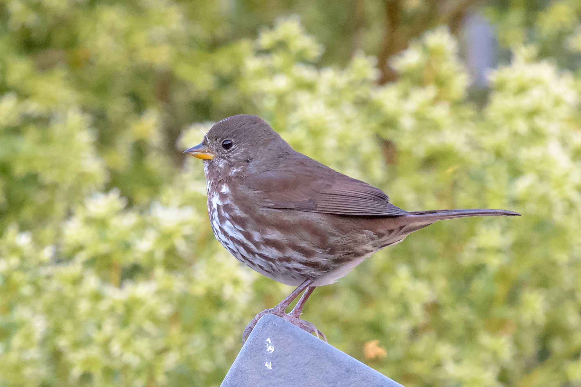 Sobrante Ridge Regional Preserve, Richmond, Contra Costa County, California